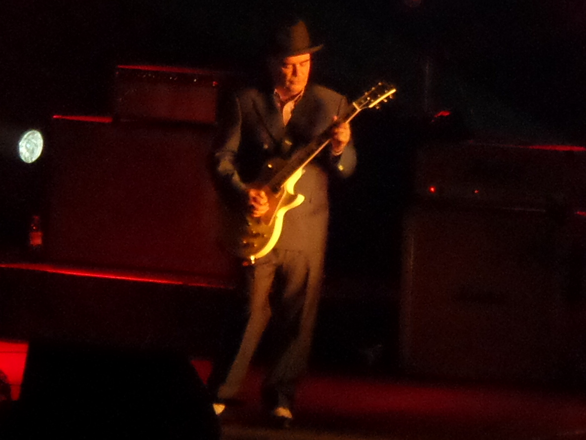 Madness Manchester Arena Dec. 19, 2014 Chris Foreman (guitarist for Madness)